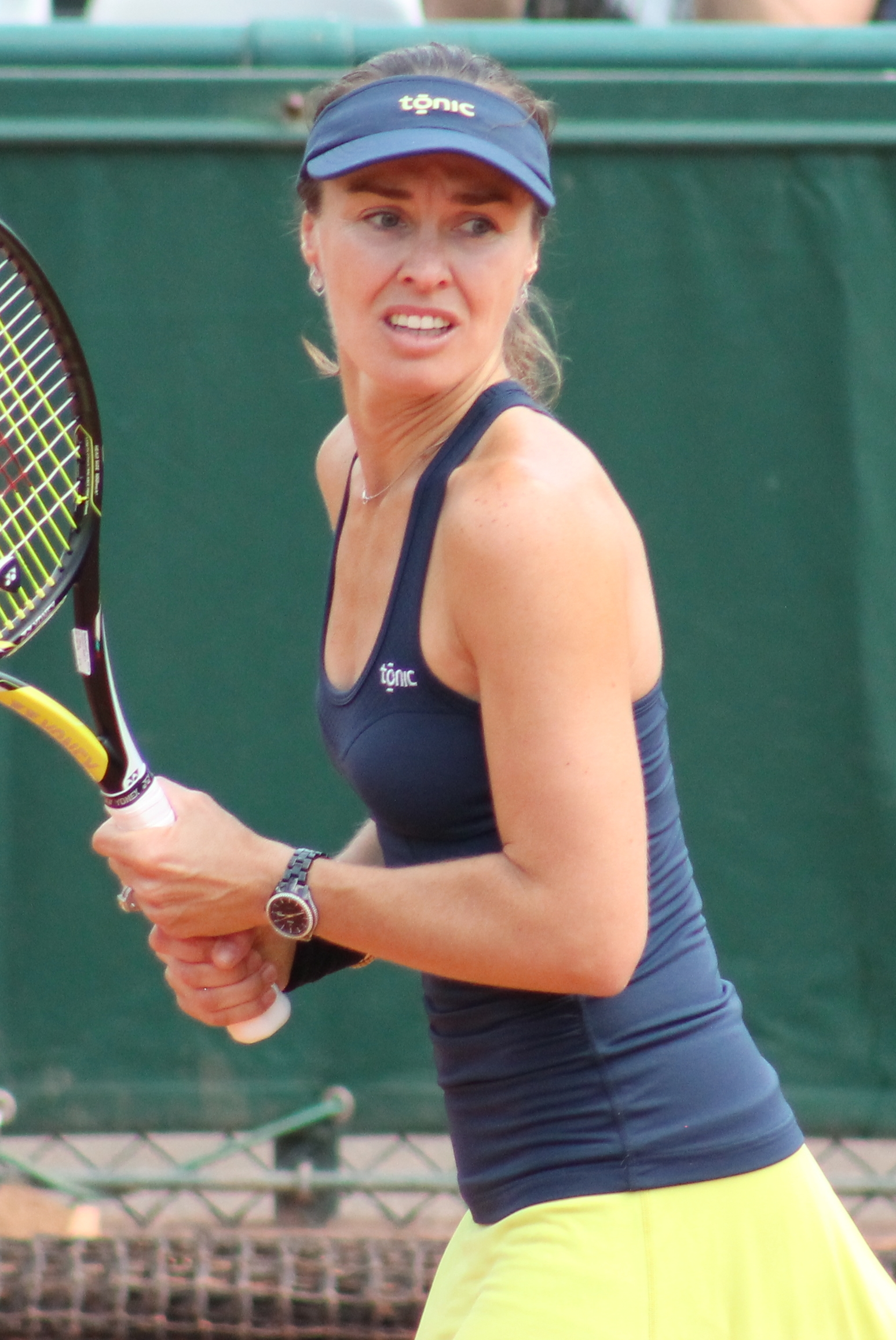 Hingis RG15 (4)